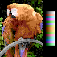 Sample image of simulated Commodore Plus4 16-color (multicolor) screen